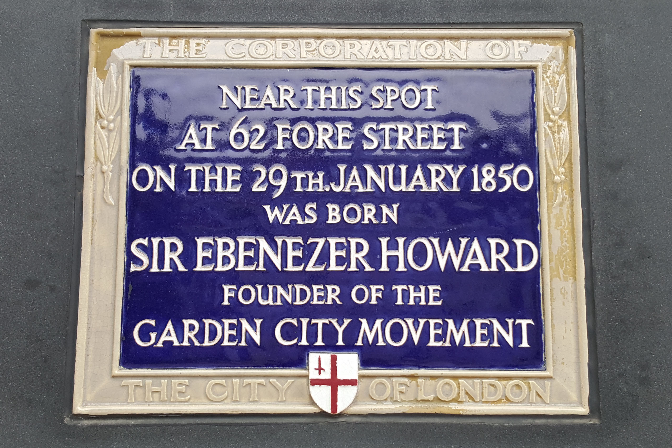 City of London blue plaque for Sir Ebenezer Howard Open Plaques